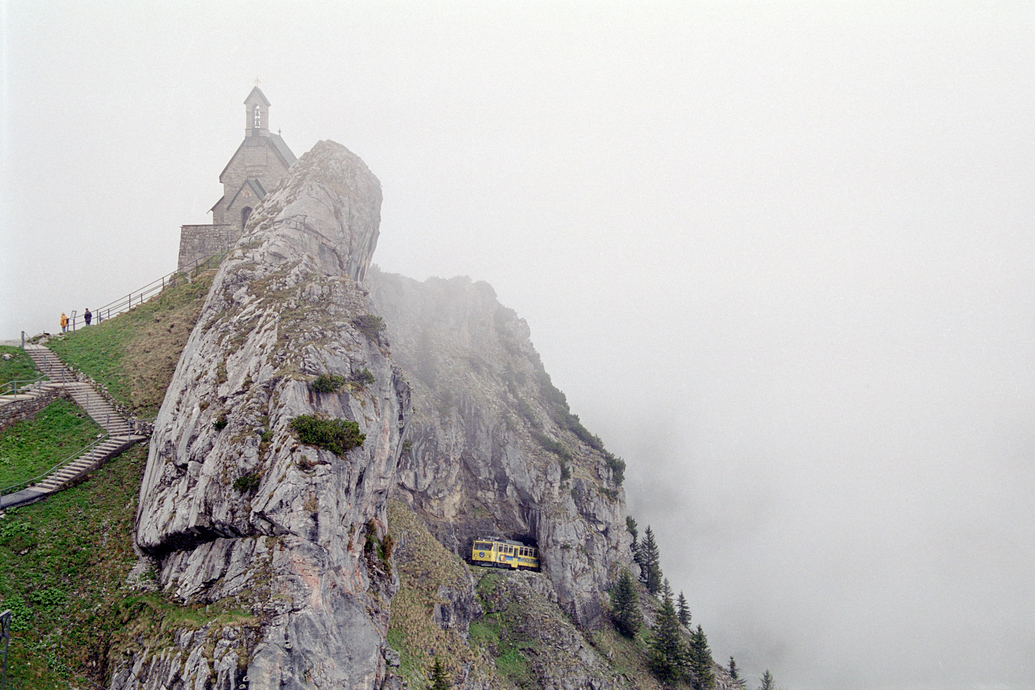 Below the "Wendelsteinkircherl" the train appears for a few seconds between the last two tunnels.